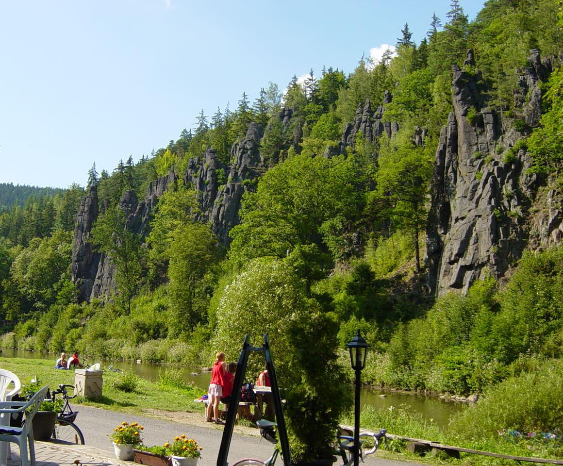 Svatošské skály (Hans-Heiling-Felsen) National Monument of Nature on left bank of the Ohře River before Karlovy Vary (near municipality of Hory)